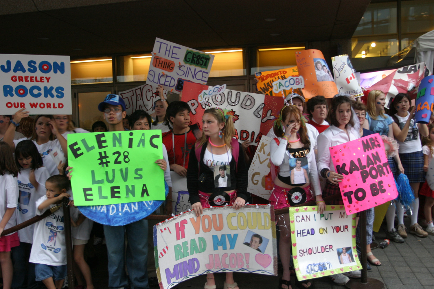 A group of Canadian Idol fans wait outside the Canadian Idol studio in Toronto, Canada.